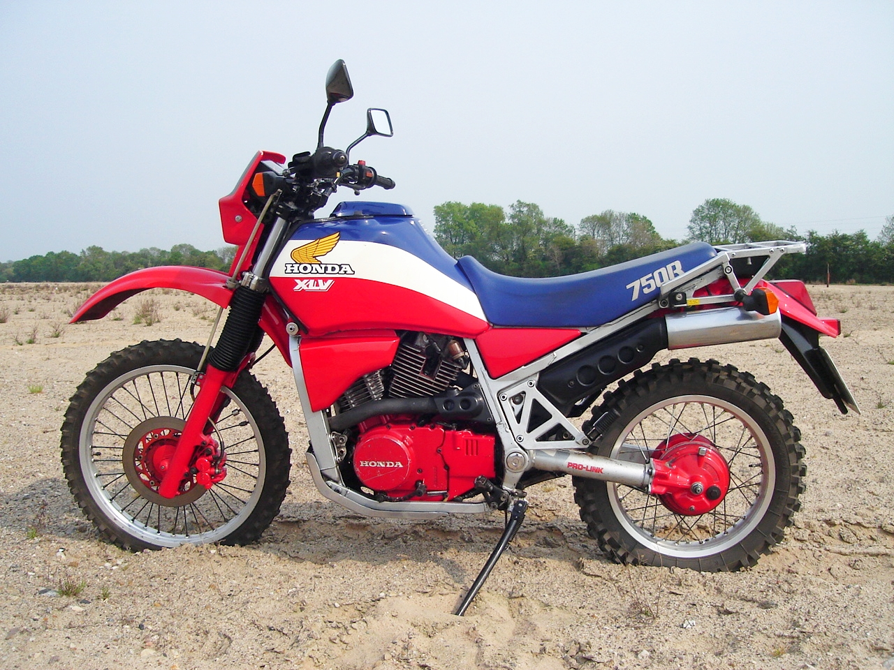 Honda XLV750R dual-sport motorcycle in stock condition, photo taken in 2011. The red, white, and blue D-type was produced in the years 1983 and 1984.